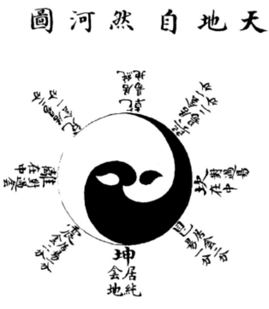 Bagua diagram by Zhao Huiqian ("River Chart spontaneously [generated] by Heaven and Earth" 圖河.自地天). This image may in fact be a reproduction of the diagram by Hu Wei in his Yitu mingbian ("Clarification of the diagrams in the book of changes"), dated 1706. Reproduced in: François Louis, 'The Genesis of an Icon: The "Taiji" Diagram's Early History', Harvard Journal of Asiatic Studies 63.11 (June 2003), p. 171. Joseph A. Adler, Reconstructing the Confucian Dao: Zhu Xi's Appropriation of Zhou Dunyi, SUNY Press, 2014, p. 158